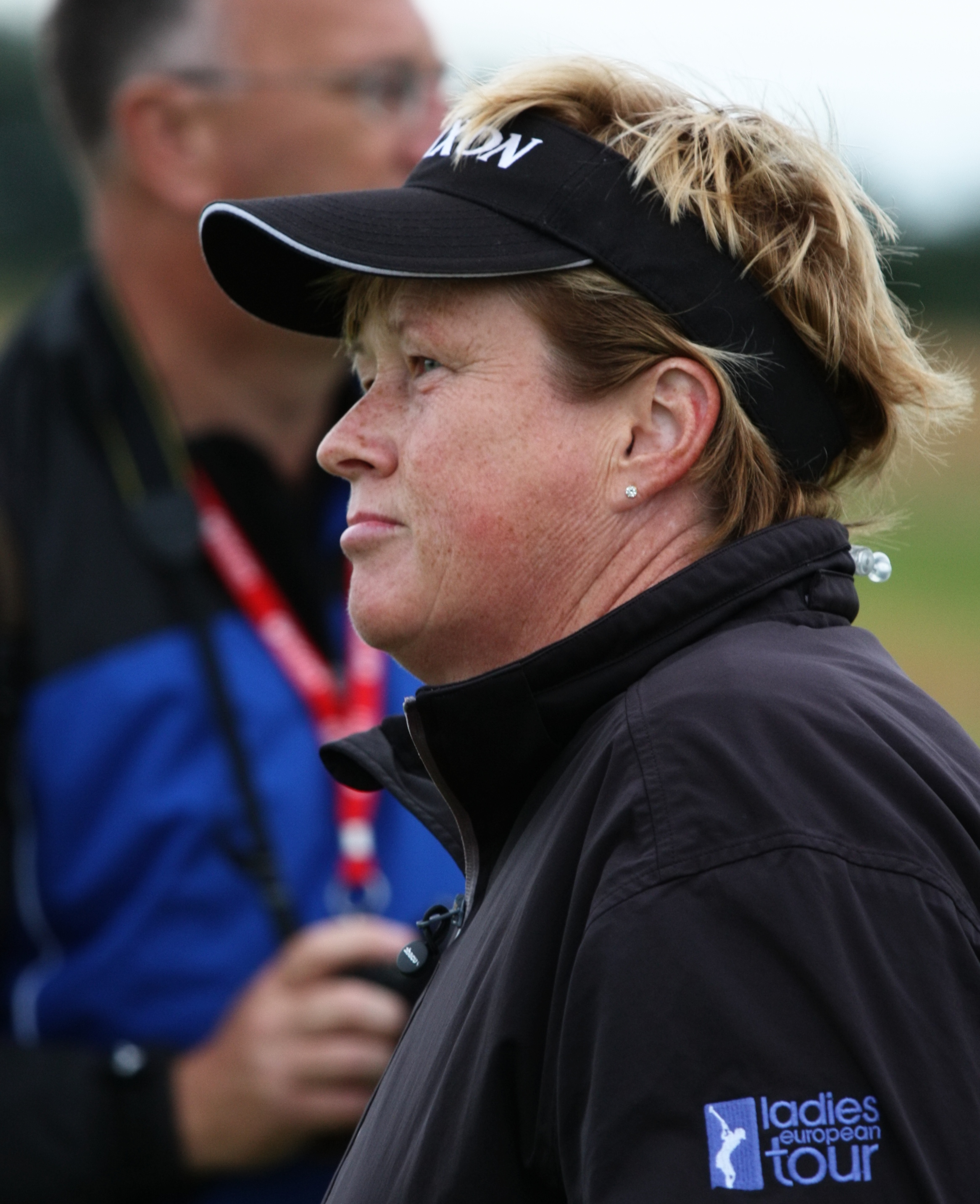 LYTHAM ST ANNES, UNITED KINGDOM - JULY 29: Karen Lunn of Australia on the 5th tee during third practice round before 2009 Ricoh Women's British Open held at Royal Lytham & St Annes on July 29, 2009 in Lytham St Annes, England. (Photo by Wojciech Migda)